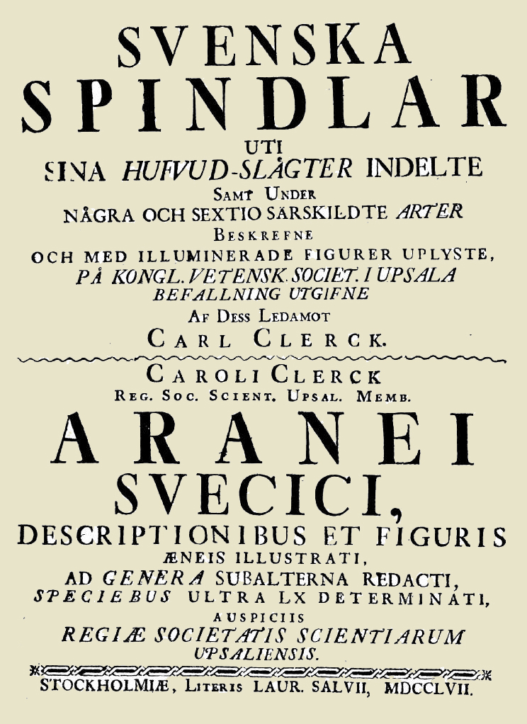 Title page of Svenska spindlar written by Carl Clerck, published in 1757 by L. Salvius in Stockholm. Digitized in 2004 from an original copy of the 1757 edition held by Göttingen State and University Library, signature . Uploaded by Francisco Welter-Schultes, I personally checked that the original copy was identical with the digitized version.